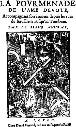 Cover page of La Pourmenade de Jean Auvray by Jean Auvray